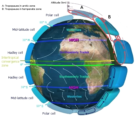 Global circulation of Earth's atmosphere displaying Hadley cell, Ferrell cell and polar cell (see discussion page first).